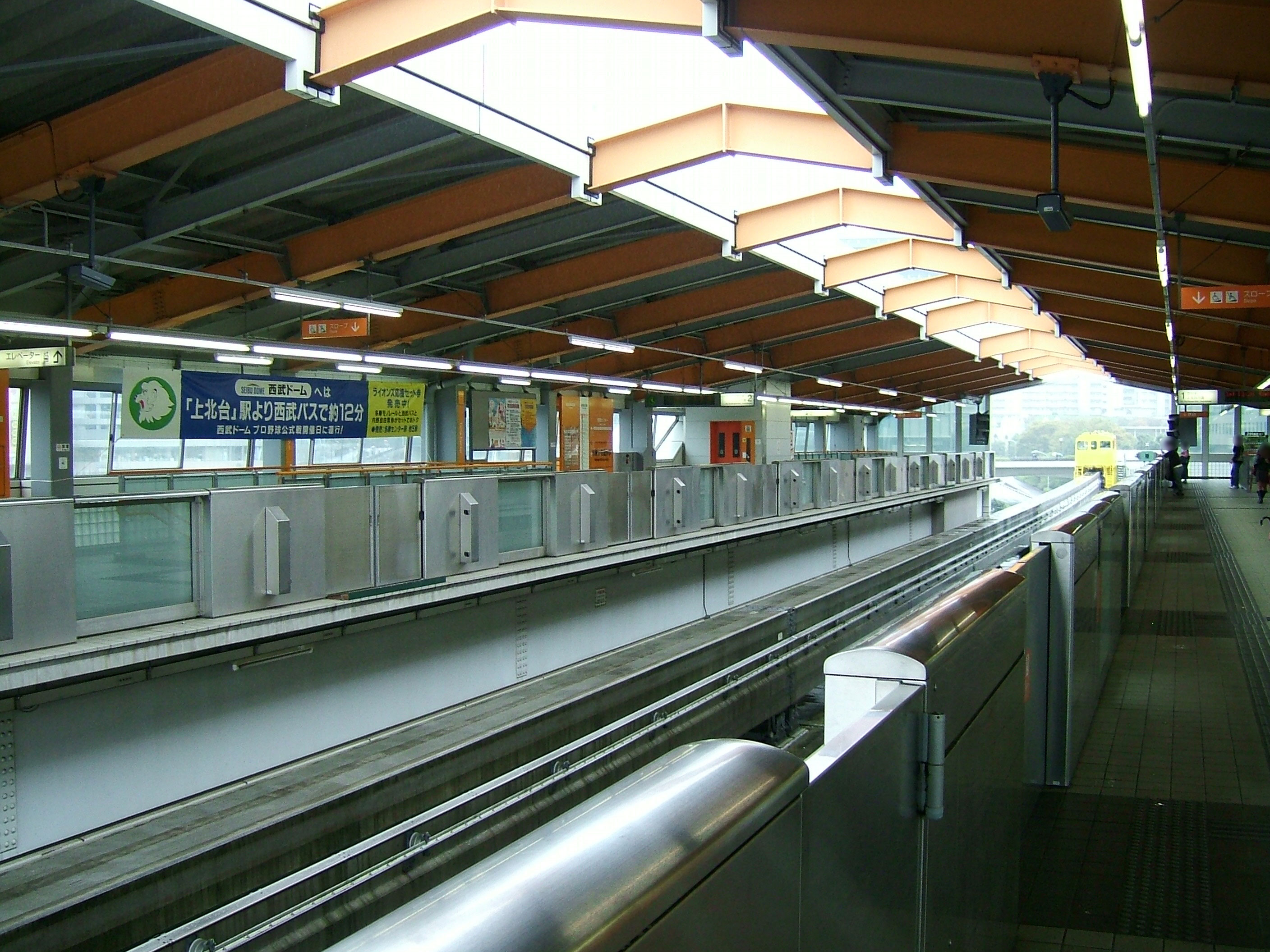 Tama-Center Station platform (Tama Toshi Monorail Line)